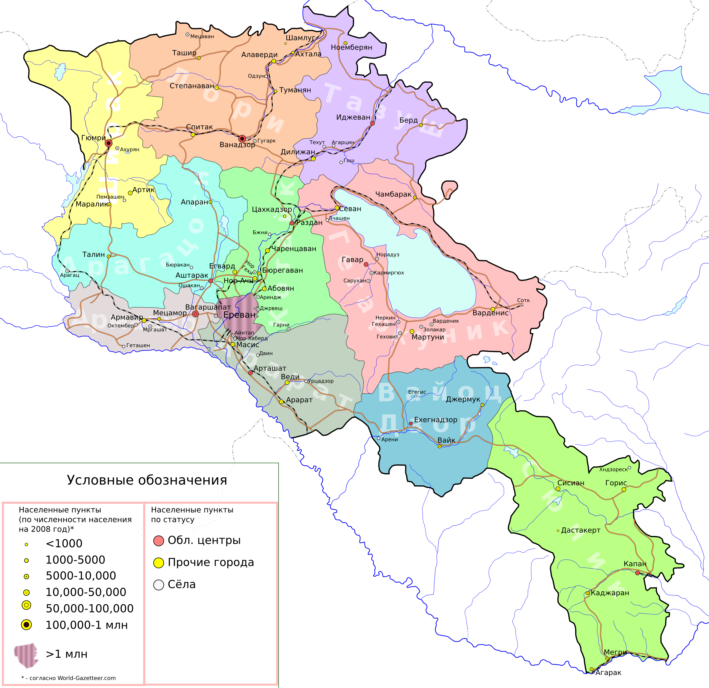 Cities of Armenia on administrative map. Population of the cities is given according Russian version Города Армении на административной карте страны. Население дано согласно